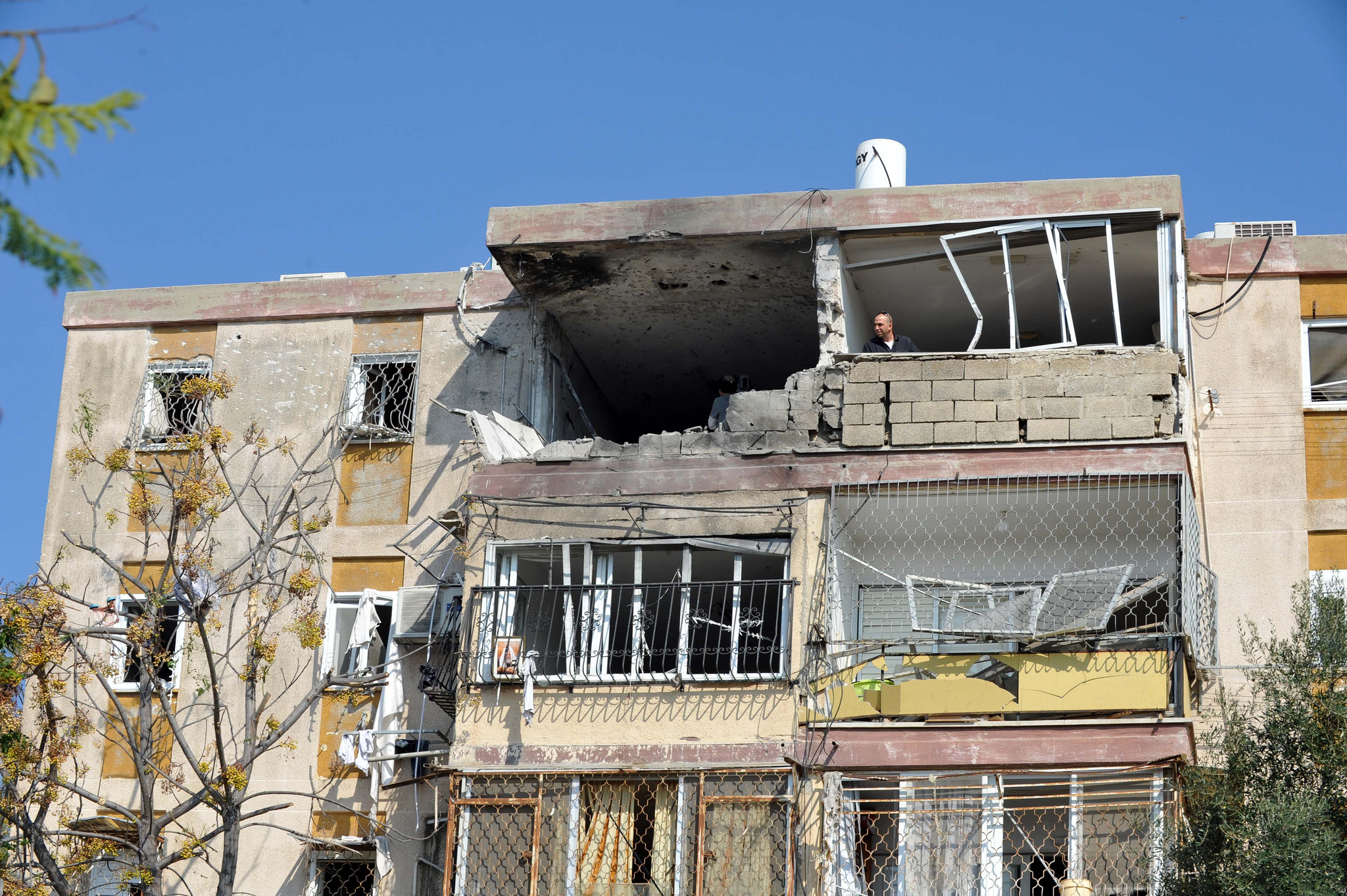 Apartment building in the Israeli town of Kiryat Malachi that took a direct hit from a Hamas rocket. 3 residents were killed, and several others seriously wounded including a 1.5 year old baby